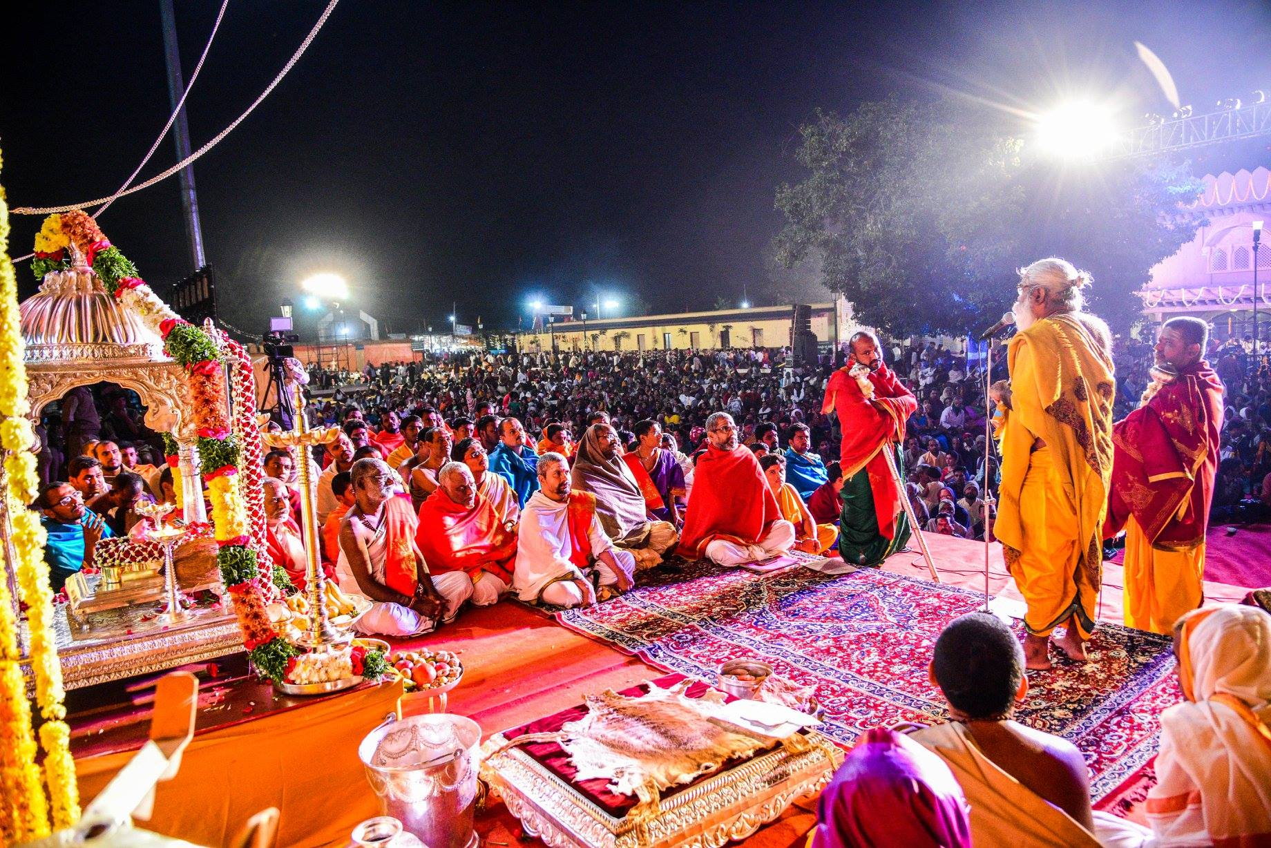 Jaynti Utsav of Manik Prabhu